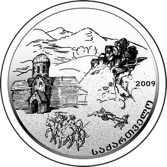 Commemorative 10 GEL silver coin issued in 2009. Averse: Drawings of Ilori church and Georgian cavalrymen by the 17th-century Italian missionaire Don Christoforo de Castelli